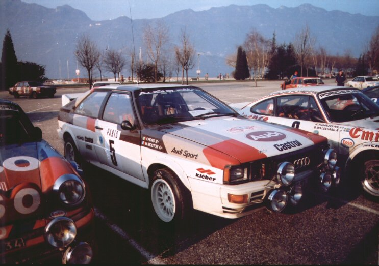 Michèle Mouton's Audi Quattro parked between the Porsche 911 SCs of Guy Fréquelin and Björn Waldegård during the 1982 Monte Carlo Rally.